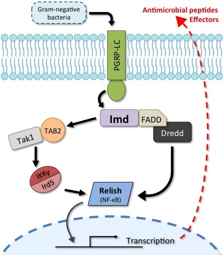 A simplified diagram of the Imd pathway of Drosophila and other insects